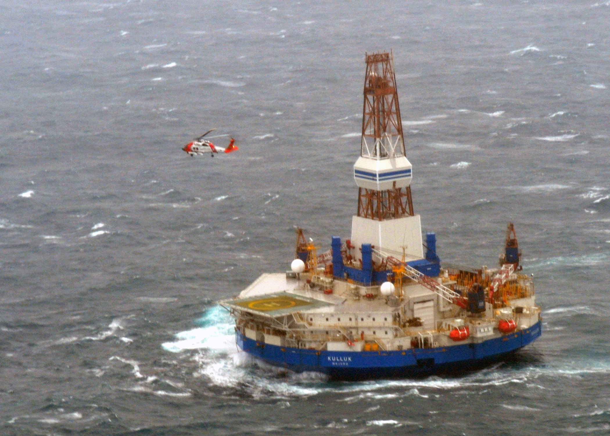 A Coast Guard Air Station Kodiak MH-65 Jayhawk helicopter crew delivers personnel to the conical drilling unit Kulluk, southeast of Kodiak, Alaska, Monday, Dec. 31, 2012. Response crews have been fighting severe weather in the Gulf of Alaska while working with the Kulluk and its tow vessel Aiviq. U.S. Coast Guard photo by Petty Officer 3rd Class Jonathan Klingenberg.